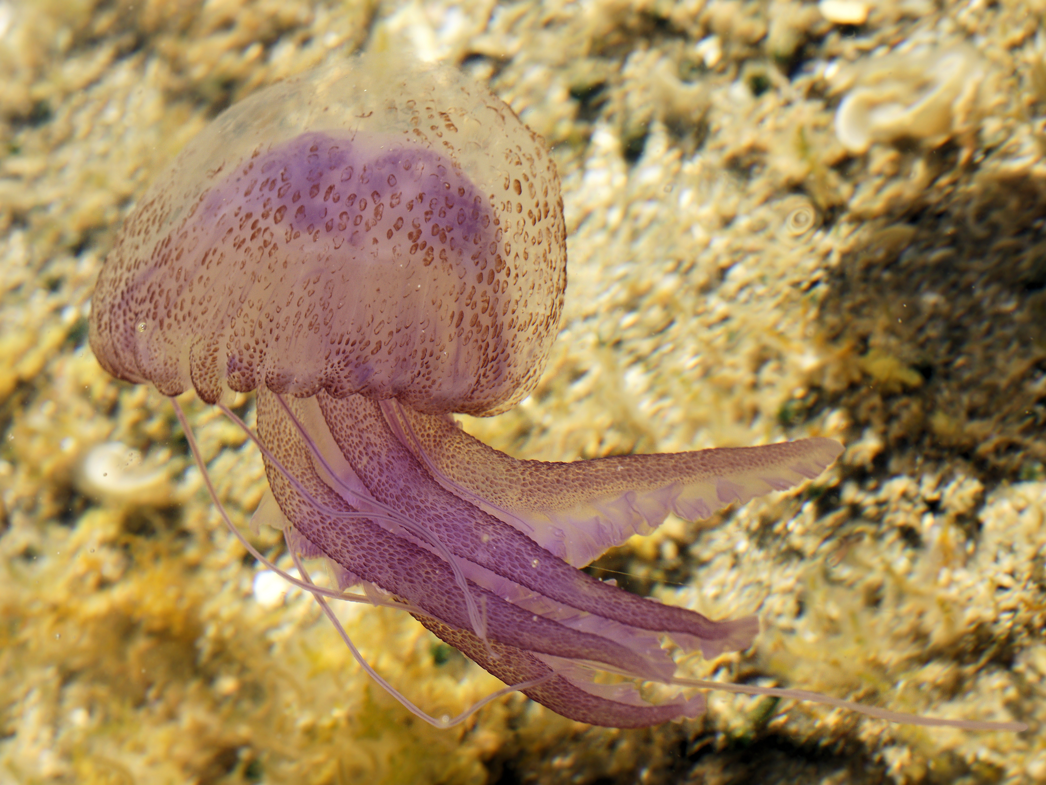 Mauve stinger jellyfish in a rockpool on the South coast of Sardinia, Italy